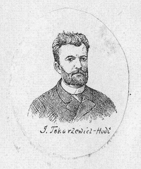 Józef Tokarzewicz (1841–1919) - Polish editor, roman writer, translator and literature critic.